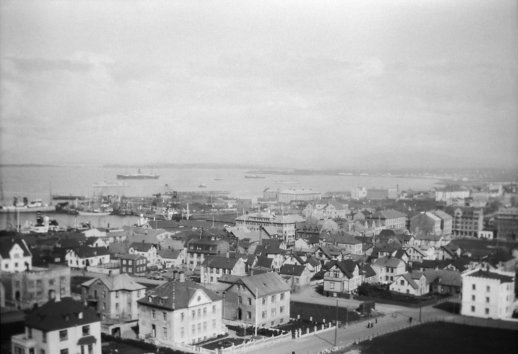 View of Reykjavik from the Catholic Cathedral. Utsikt över Reykjavik från Katolska domkyrkan. Location: Reykjavík, Iceland, Ísland Photograph by: Berit Wallenberg Date: 01.07.1930 Format: Film Persistent URL: Read more about the photo database (in english)